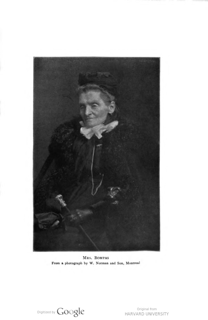 Mrs. William C. Bompas